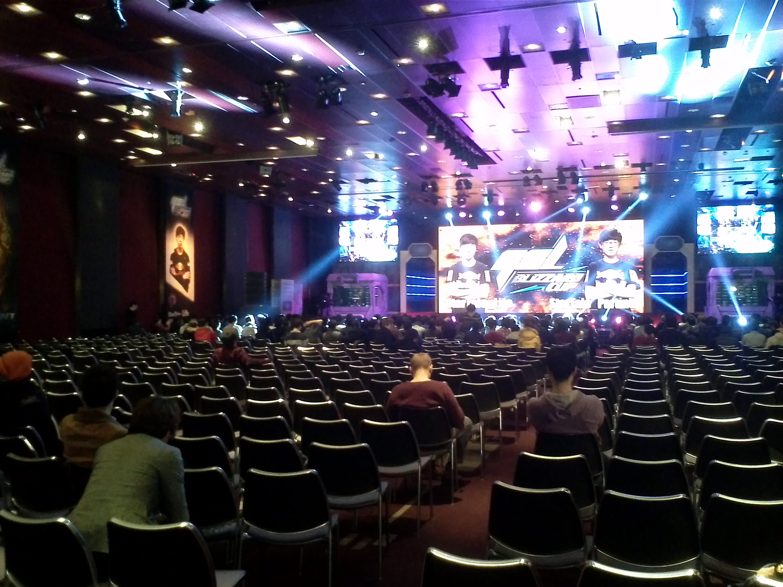 2012 GSL Blizzard Cup Grand final walkerhill hotel